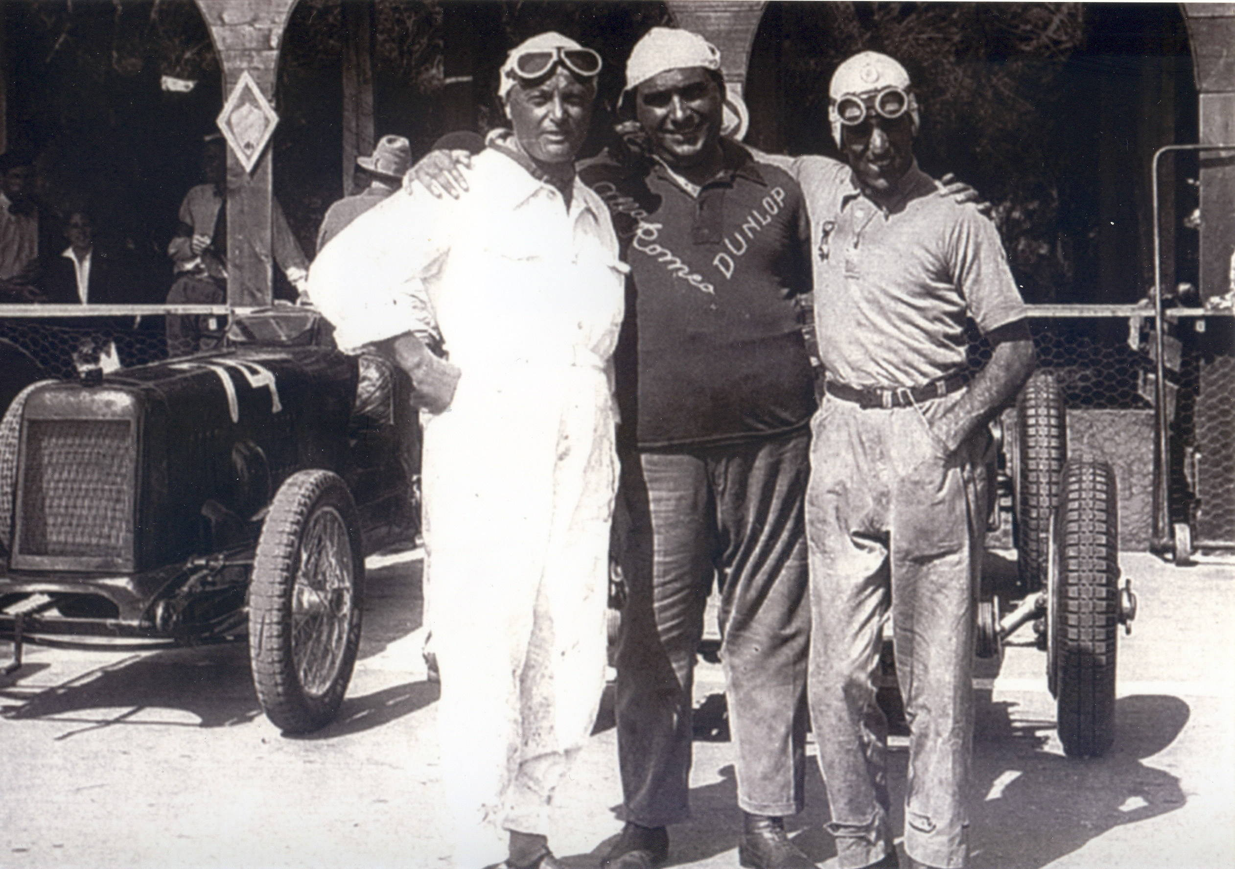 From left: Borzacchini, Campari and Nuvolari. Location is Circuito del Montenero in a Coppa Ciano event 1931, 1932 or 1933, most probably 1933 (July 30), see related picture confirming this date below. Both Borzacchini and Campari died in September 1933. The Maserati drivers finished, Nuvolary winning the race and Campari ended 3rd, whereas Borzacchini in his Alfa did not finish.